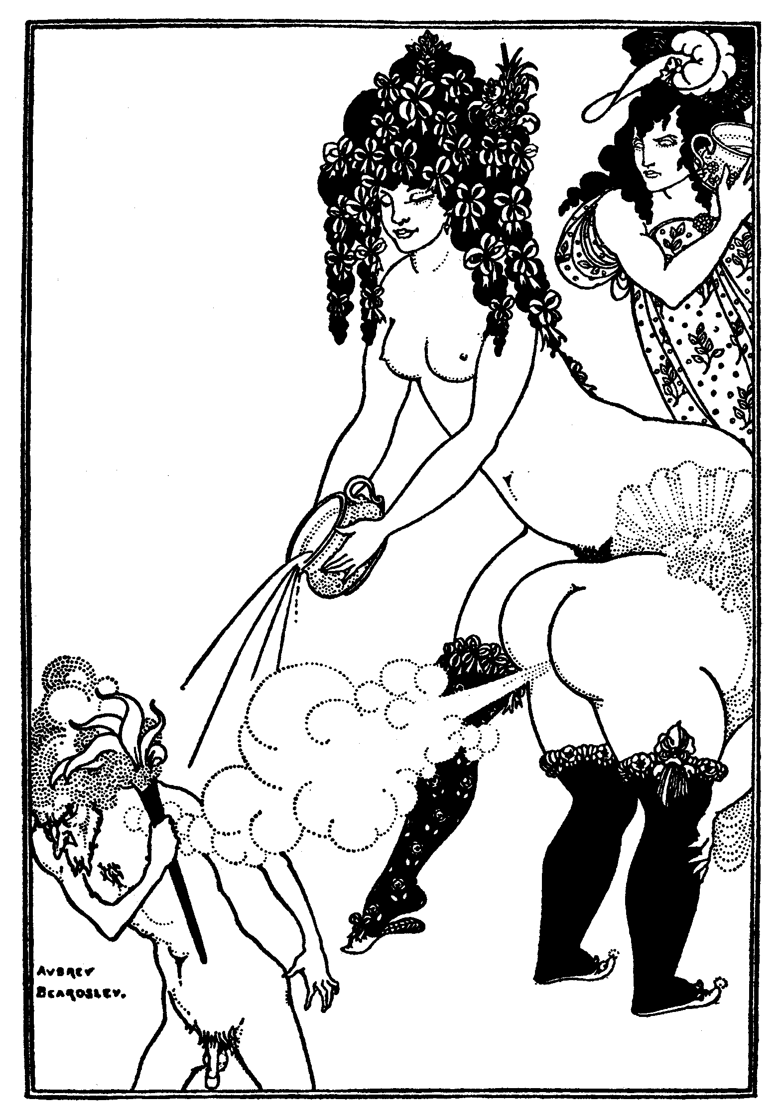 Aubrey Beardsley: Aristophanes Lysistrata - "Lysistrata Defending the Acropolis", 1896